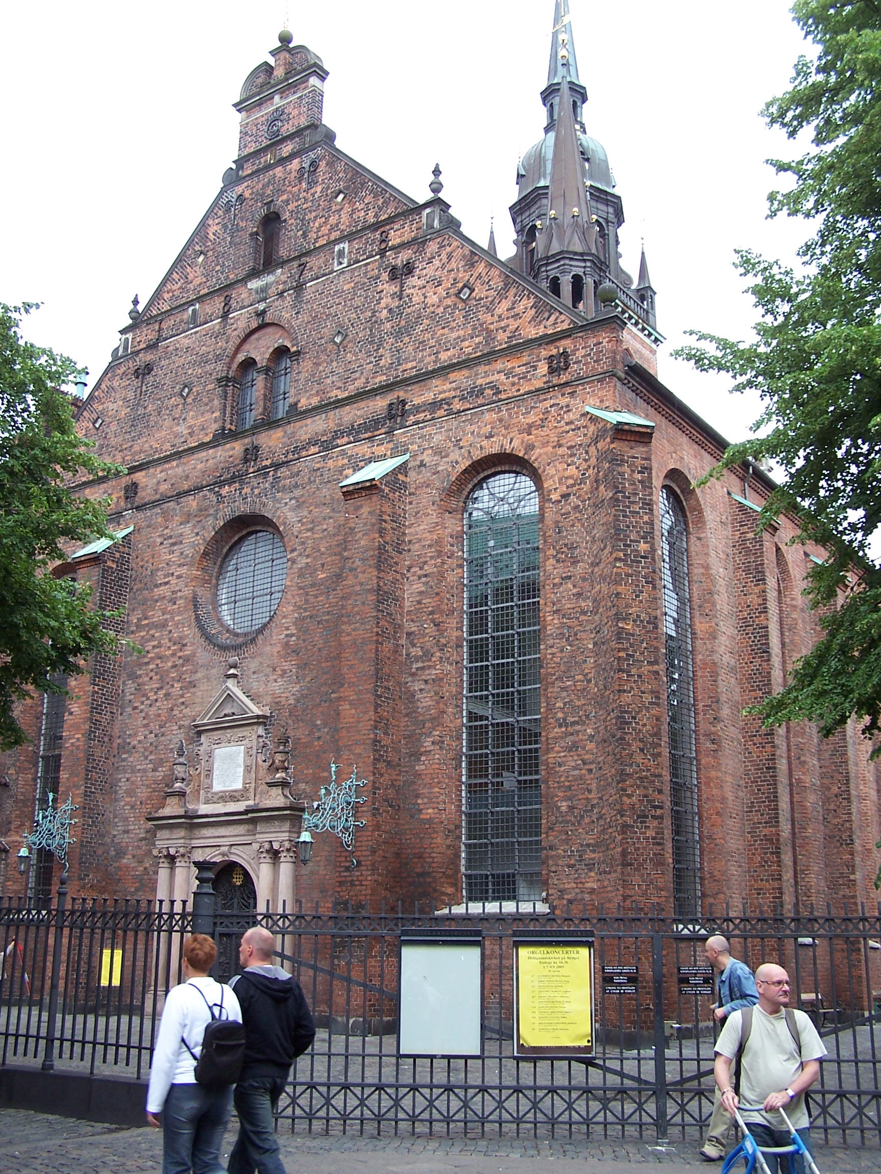 Heligands kirke, Copenhagen.